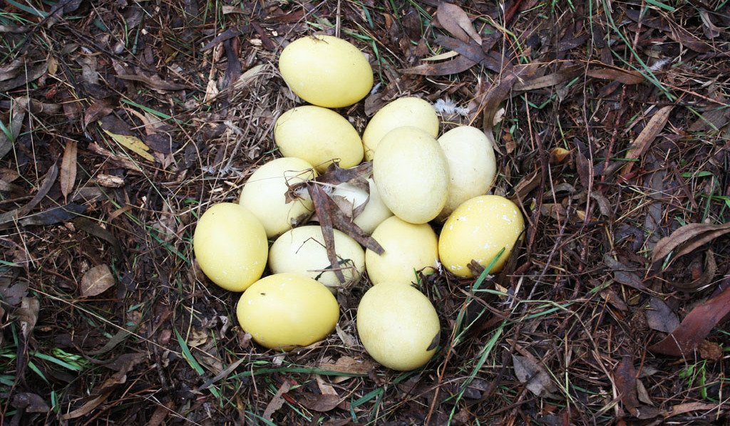 Greater Rhea (Rhea americana) eggs